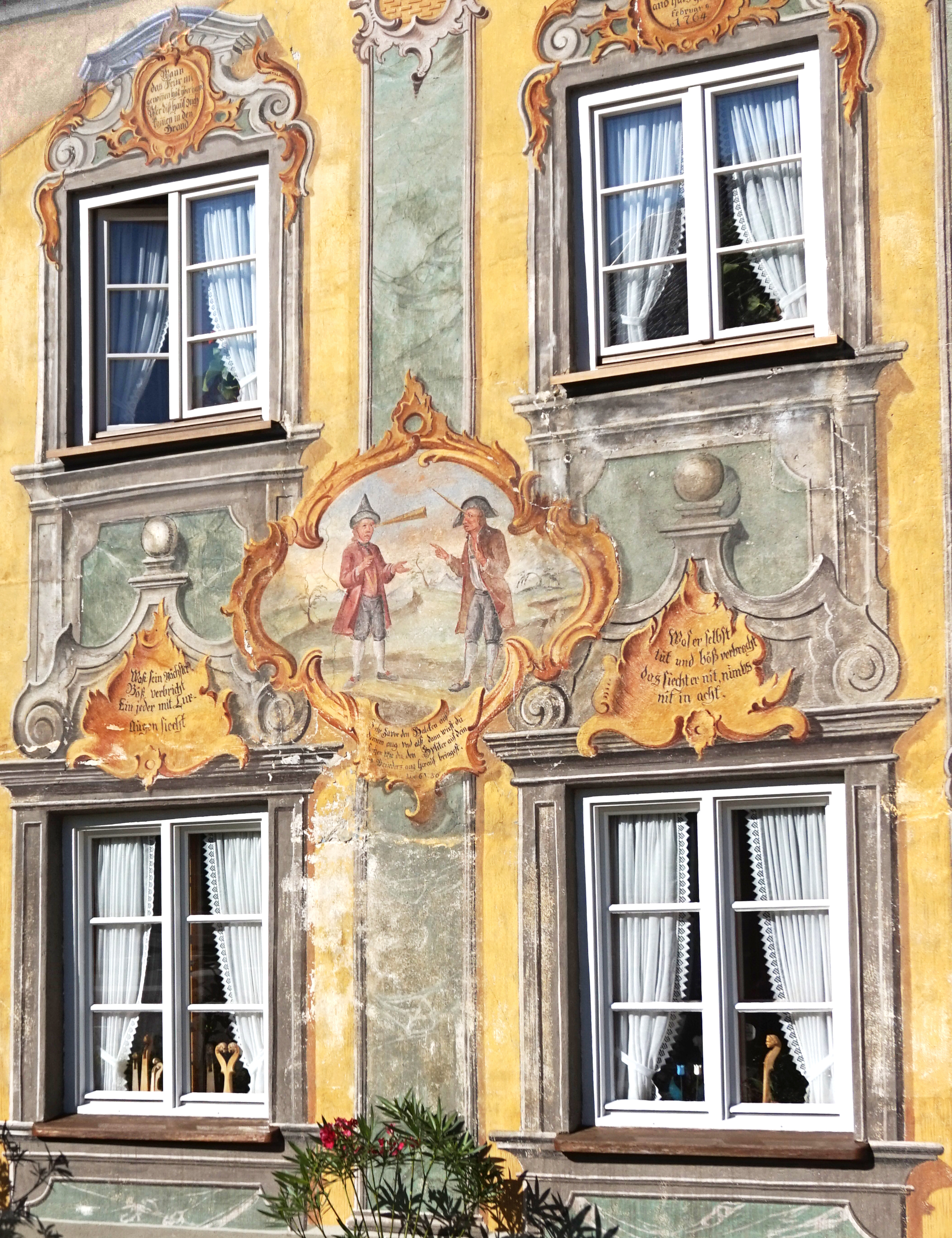 Im Gries 28, Mittenwald.This is a photograph of an architectural monument.